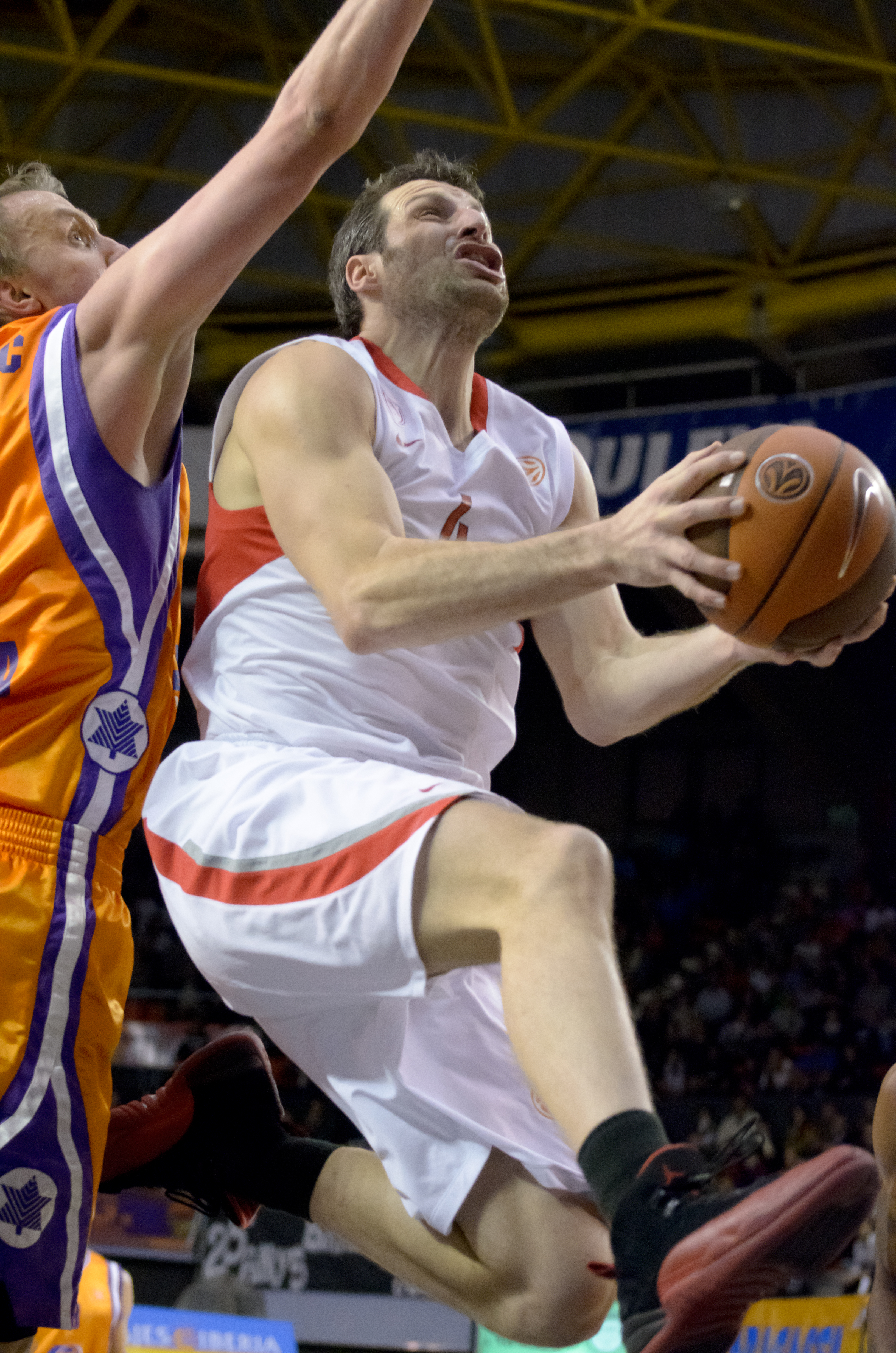 Papaloukas in his TOP16 Euroleague game against Power Electronics Valencia